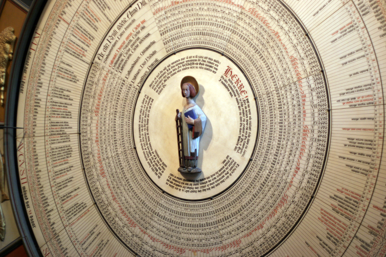 Part of the astronomical clock from the 15:th century in Lund Cathedral. The central figure is Saint Lawrence.